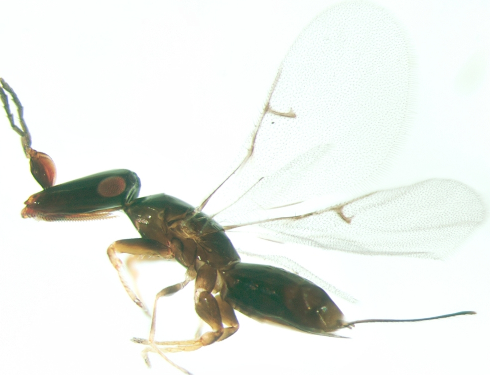 Female fig wasp (Agaonidae)